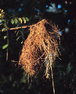 Assuming this is a nest by Cacicus cela because this photo was placed into its article by the uploader. © Leonardo C. Fleck